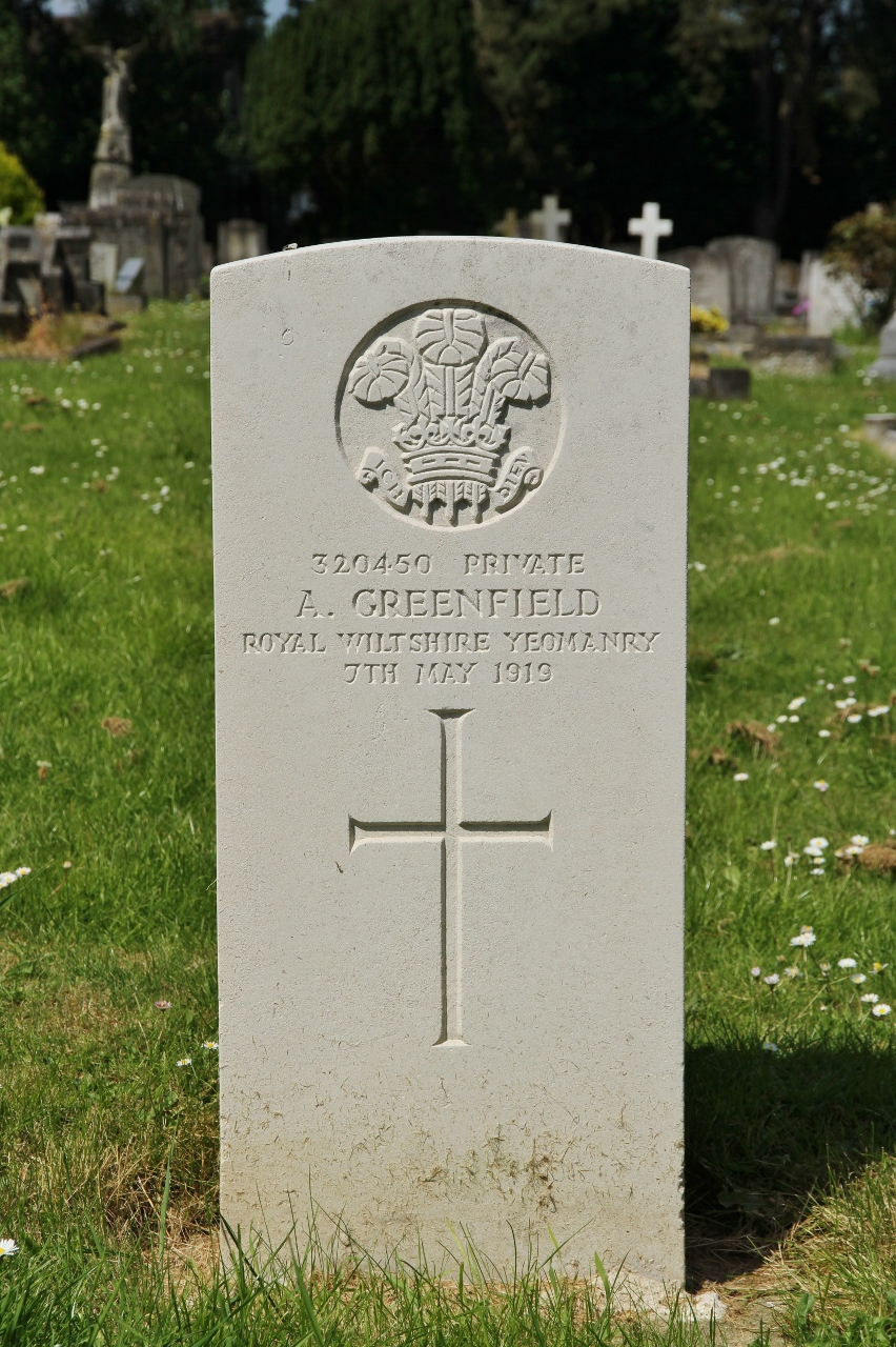 Commonwealth War Graves Commission headstone in Rose Hill Cemetery, Cowley, Oxfordshire to Pte A Greenfield, Royal Wilts Yeomanry, who died in 1919